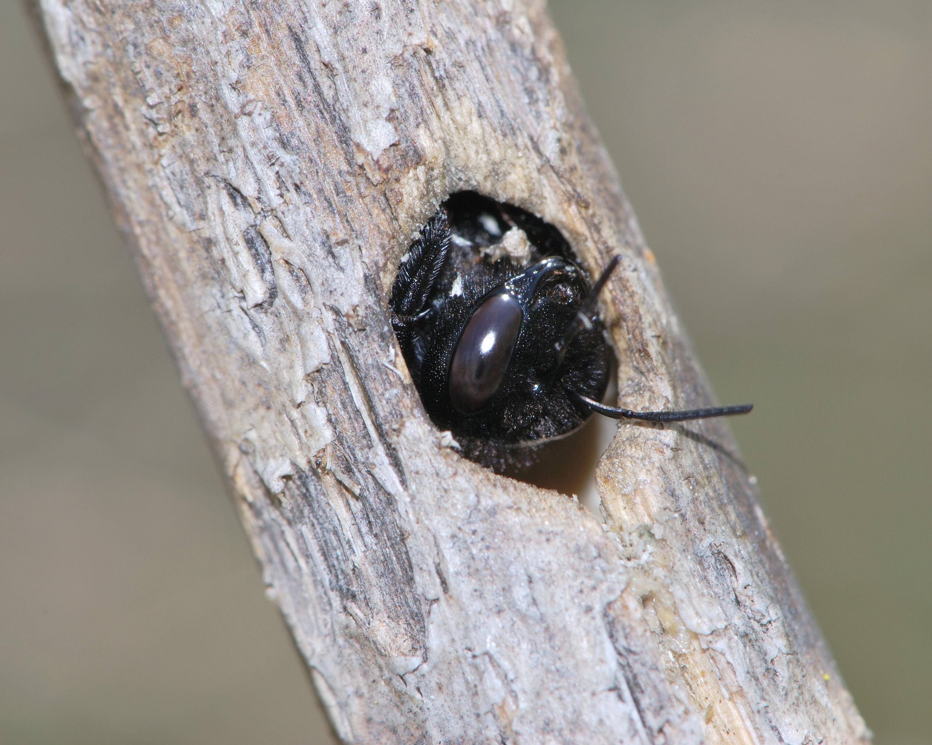 Xylocopa iris iris nesting in a dry stem of Foeniculum vulgare, Mount Carmel, Israel, July 29, 2011.